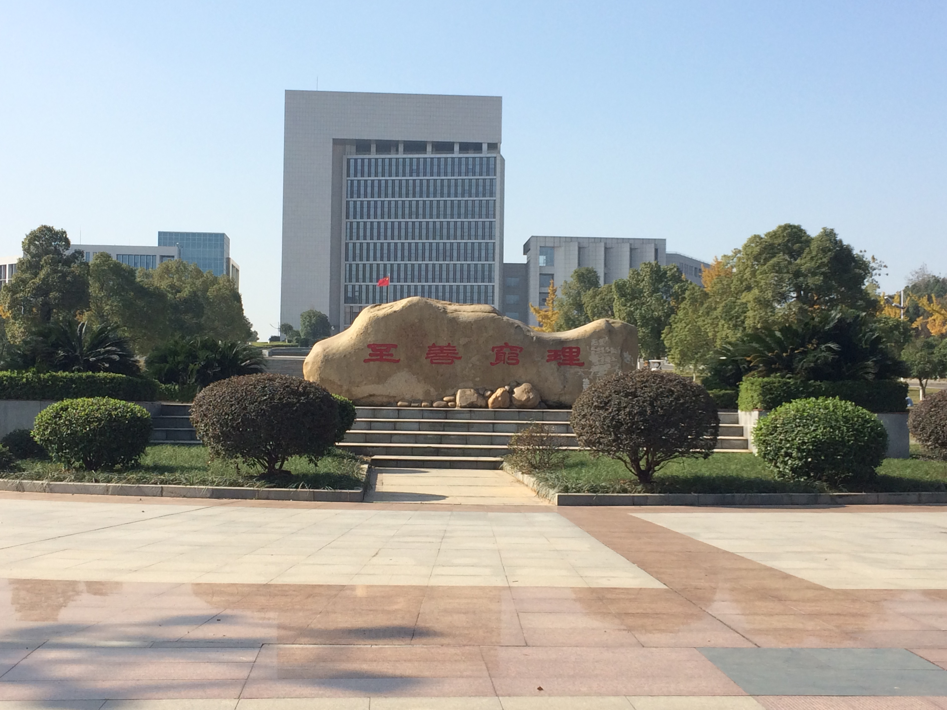 The square in front of the New Library of Hunan Institute of Science and Technology.